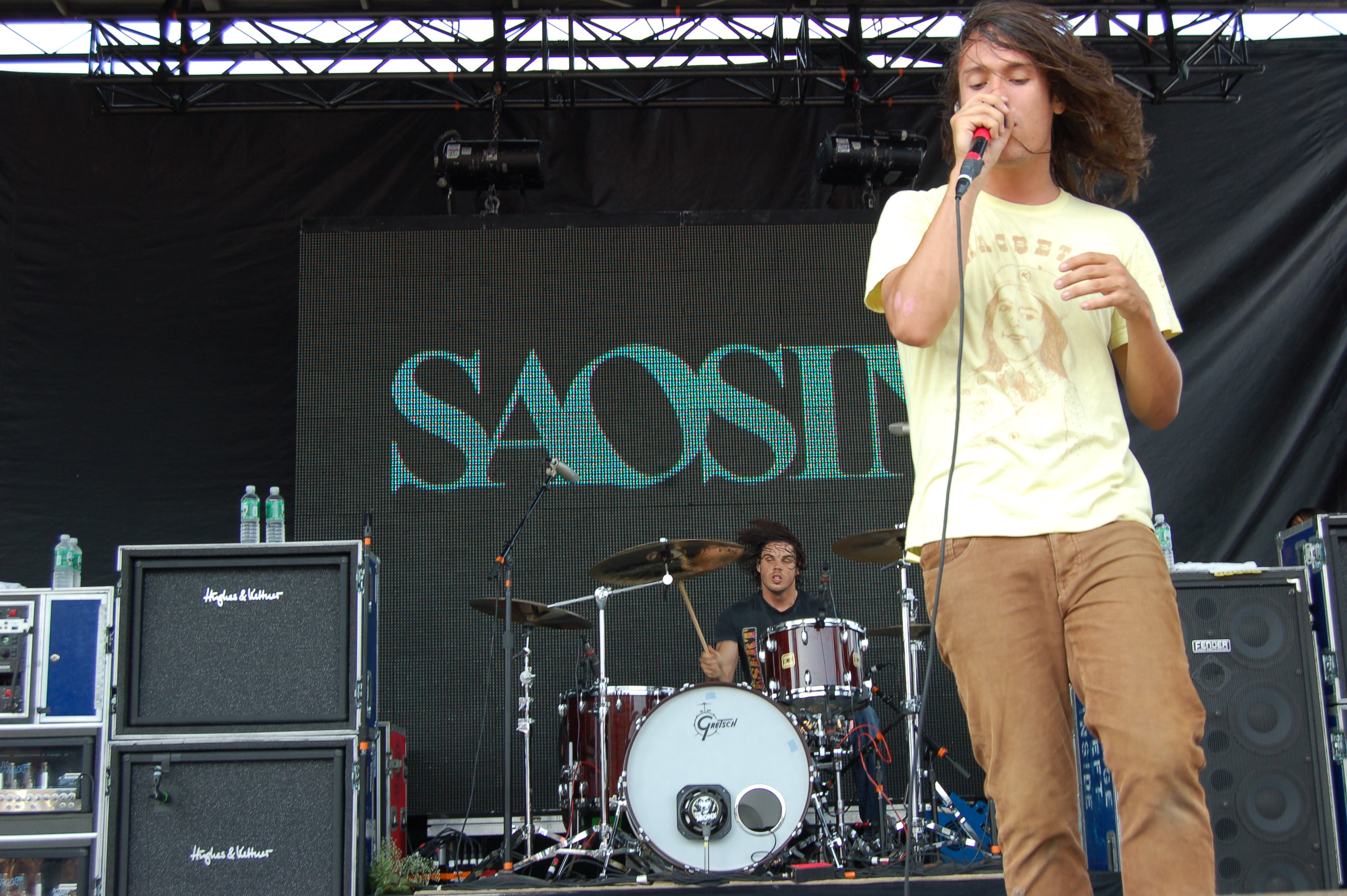 Saosin performing on the Projekt Revolution Tour on August 19, 2007 at Nissan Pavillion in Bristow, Virginia.